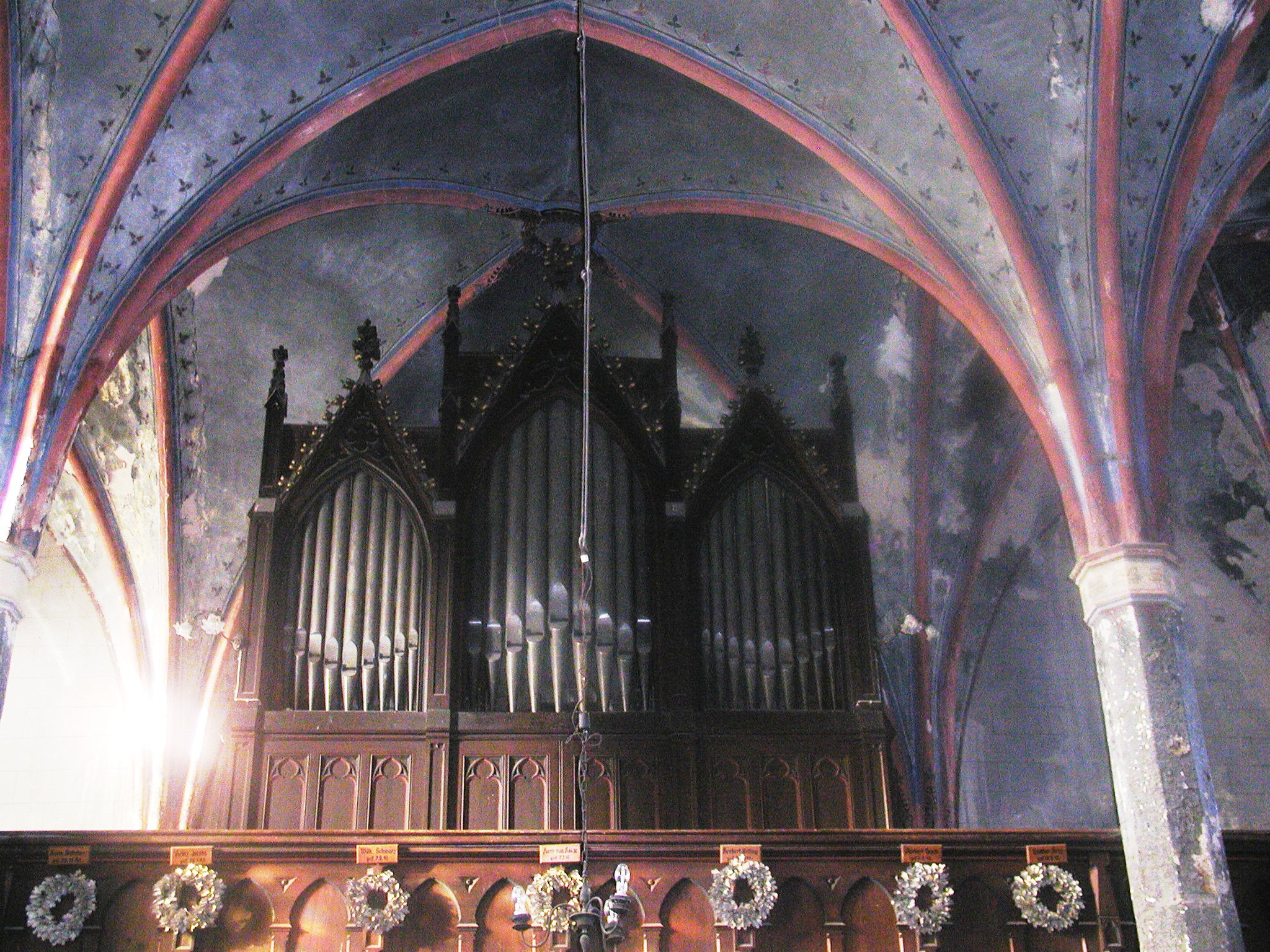 Buchholz organ at Klein-Oschersleben